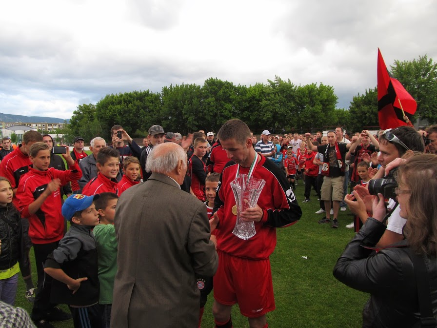 Gold medal giving by Jeno Buzanszky